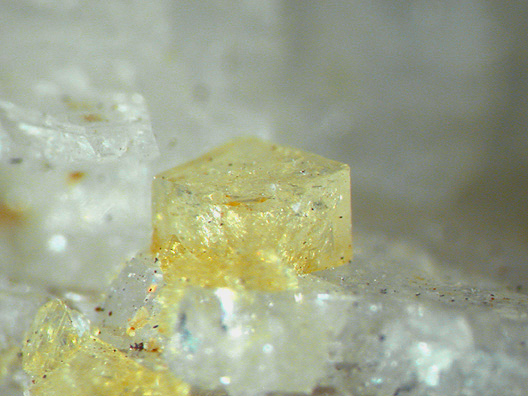 Kosnarite, Albite Locality: Jenipapo district, Itinga, Jequitinhonha valley, Minas Gerais, Southeast Region, Brazil (Locality at ) Size: 3.1 x 2.6 x 1.7 cm. Kosnarite is Potassium, Zirconium Phosphate and was named after Richard Kosnar in 1994. The type locality for this material is Mt. Mica, Maine, and the crystals at that find barely approached 1 mm in diameter. A few years ago, Luiz Menezes made a discovery of what are the finest crystallized Kosnarite specimens in existence with crystals up to 4 mm. This is a specimen from that find featuring sharp, lustrous, yellow color, pseudo-cubic (trigonal) crystals on bladed white Albite matrix. If you look closely, you'll see a small truncated face on each "cube" of Kosnarite on this specimen, which is actually a pinacoid or a "c" face as these crystals are trigonal and not isometric as they might appear. The quality on this specimen is as good as Kosnarite gets from any locality in the world. Ex. Richard Kosnar Collection.